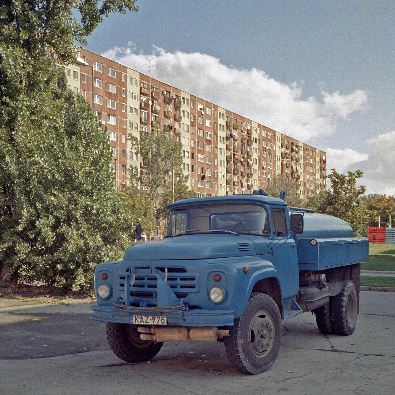 A blue Soviet-made ZiL-130-based water truck.